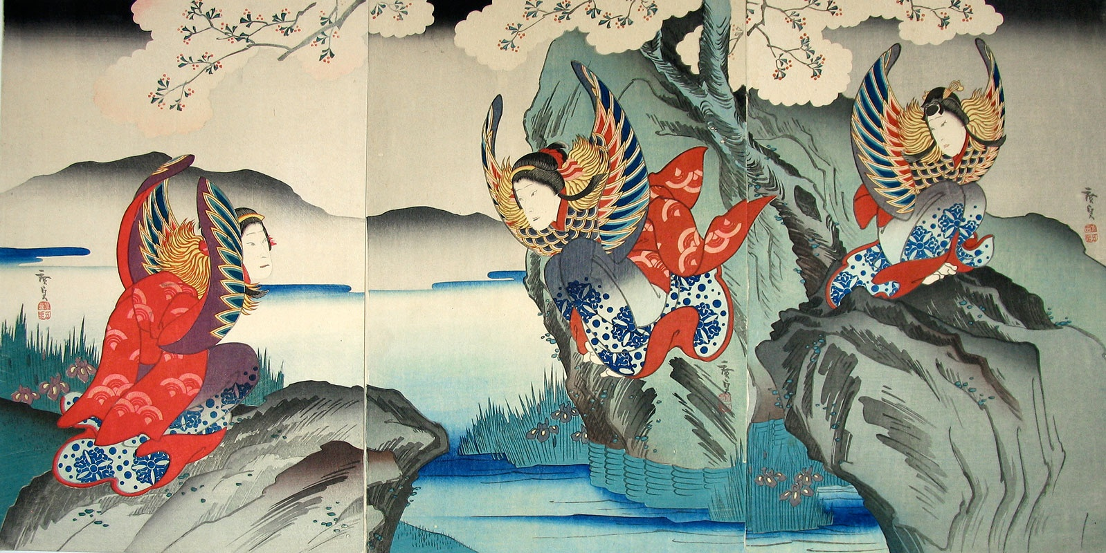 kabuki scene by Utagawa Hirosada, the actors Nakamura Tamashichi I, Sawamura Kitō I and Arashi Rikaku II as spirits of mandarin ducks, 1849